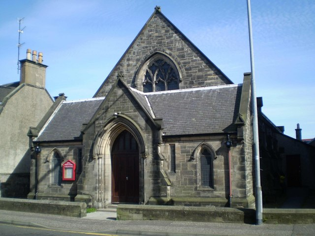 Carlow Hall Church Hall to the Leven Parish Church this building looks as if it was a smaller church built after the disruptions of the 19th Century and reabsorbed when the splits healed in the earlier part of the 20th Century.